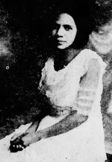 A young African-American woman, wearing a lacy white dress, seated with her hands clasped in her lap.